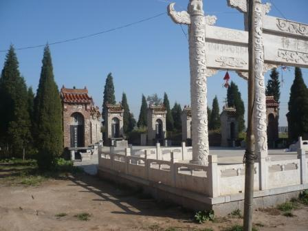 Tombstone of Meihuaquan Teachers in Homazhuang Village